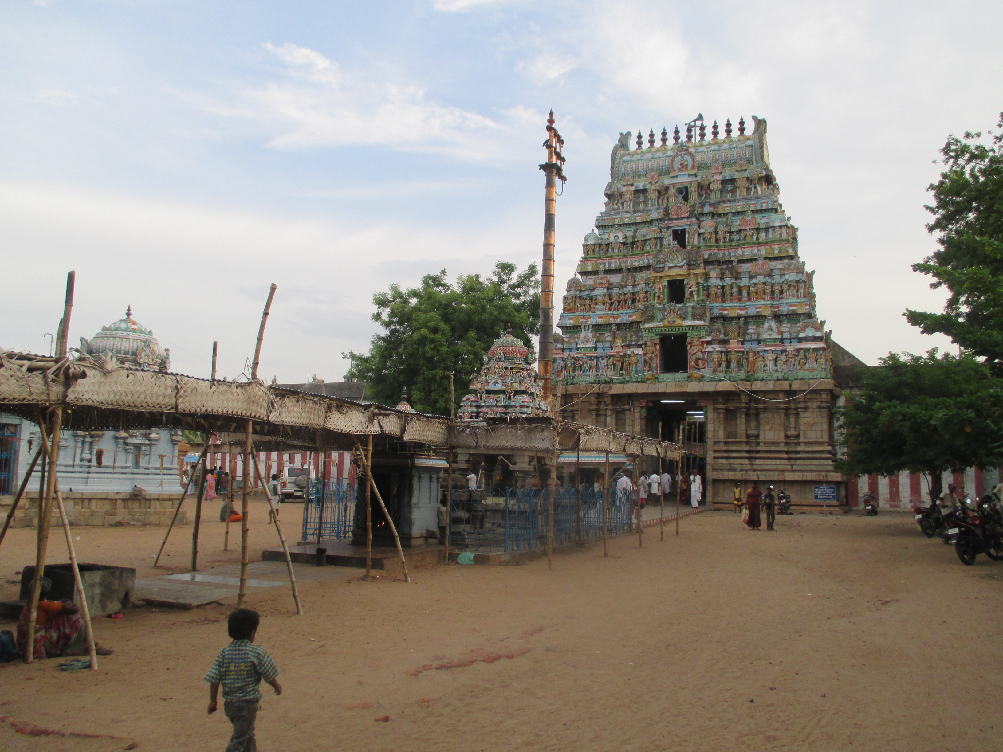 Tirunageswaram